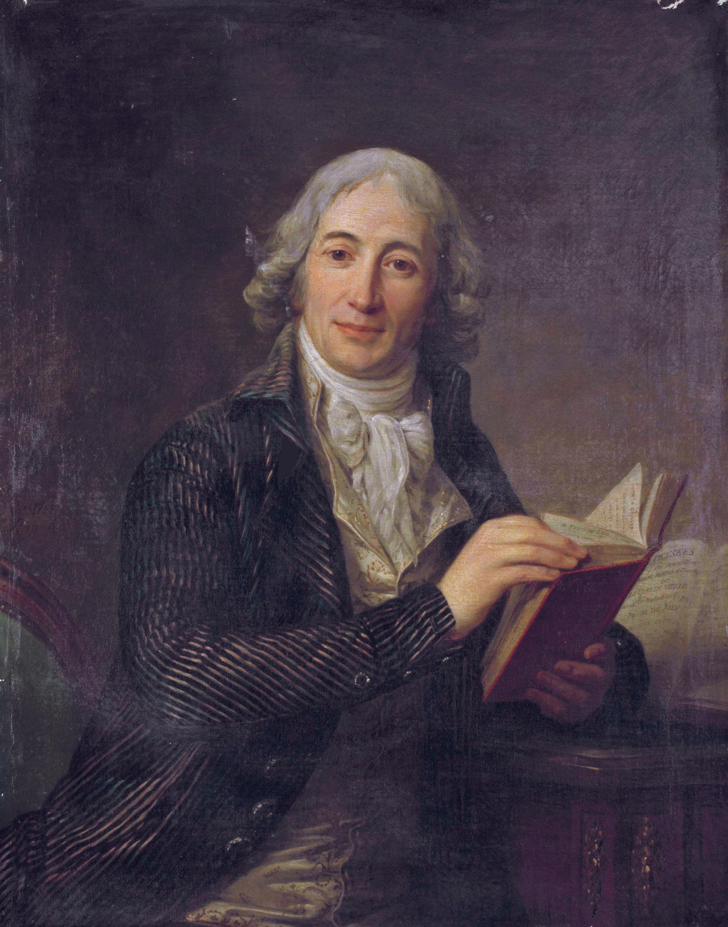 Ministre Etienne-Louis-Hector de Joly